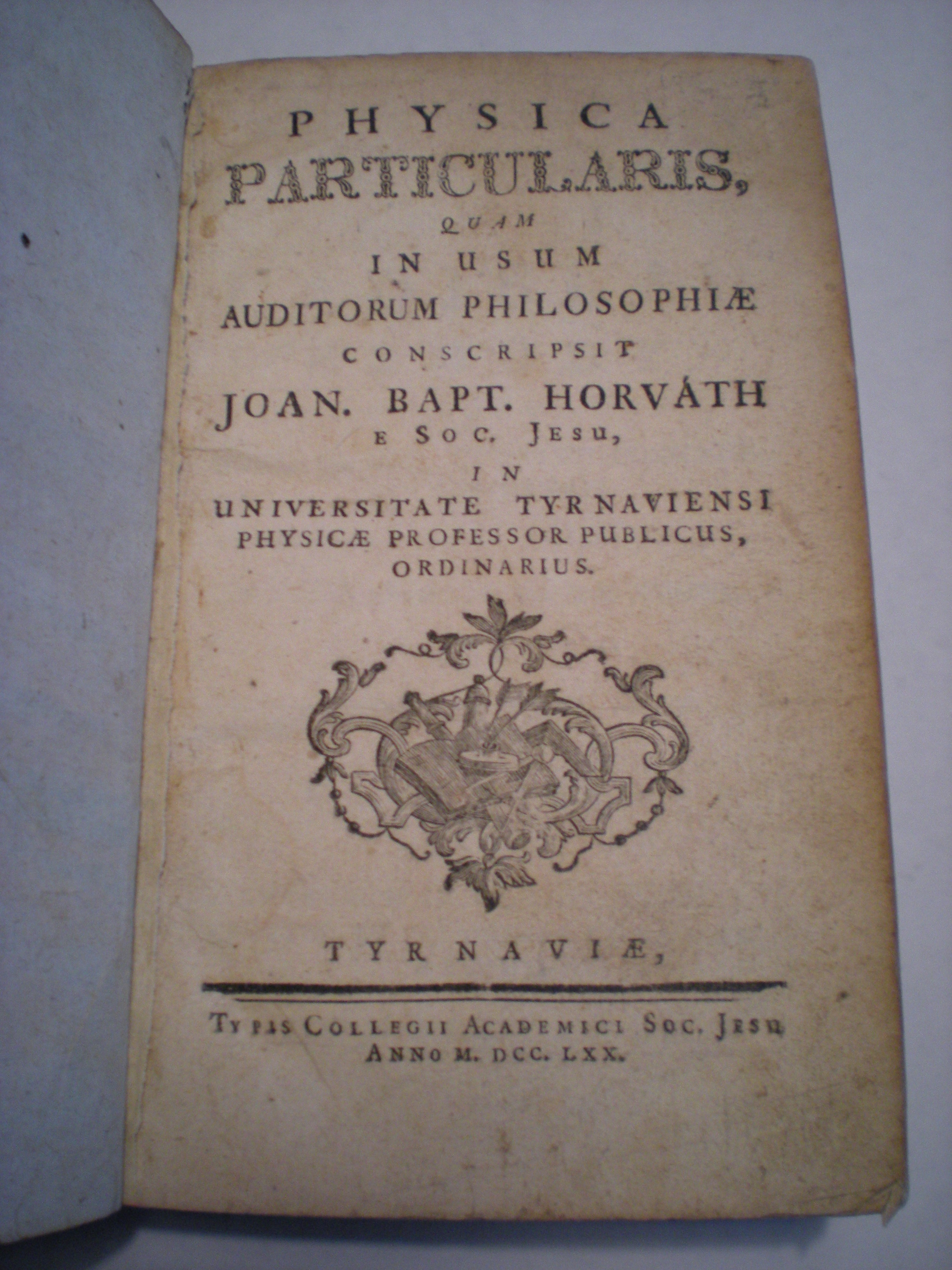 Title page of Physica Particularis by Horvath.